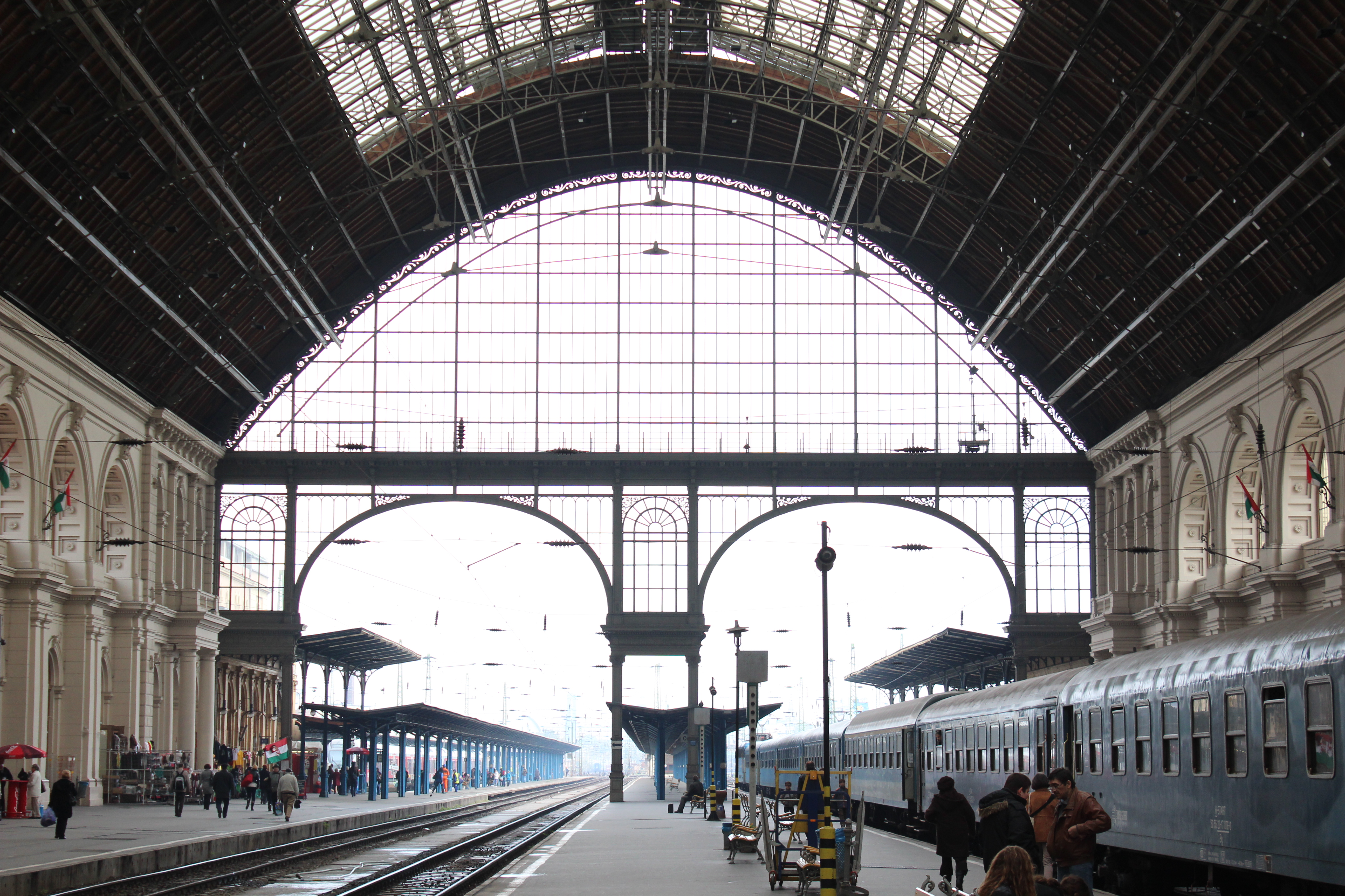 Cross-section of the roof the Keleti Railway Station (Budapest, Hungary) forms a catenary. Constructor: János Feketeházy.